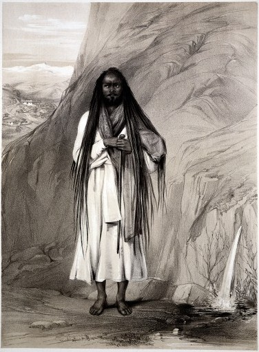 "A hindoo fakeer" with long hair, cloak and walking stick stands by a rock from which water springs. Fakeers are however sufi (muslim), while hindu holy men may be called Sadhu. This lithograph was taken from plate 3 of Emily Eden's 'Portraits of the Princes and People of India'. Eden incorrectly wrote: "A Fakeer is a religious devotee, whether of the Mahomedan or Hindoo persuasion; the person represented in the print is a Hindoo". Lithograph 1844 By: Emily Eden after: Lowes Cato Dickinson Printed: [J. Dickinson & Son], [1844] ([Charles-Joseph Hullmandel])[London] ([114 New Bond Street])